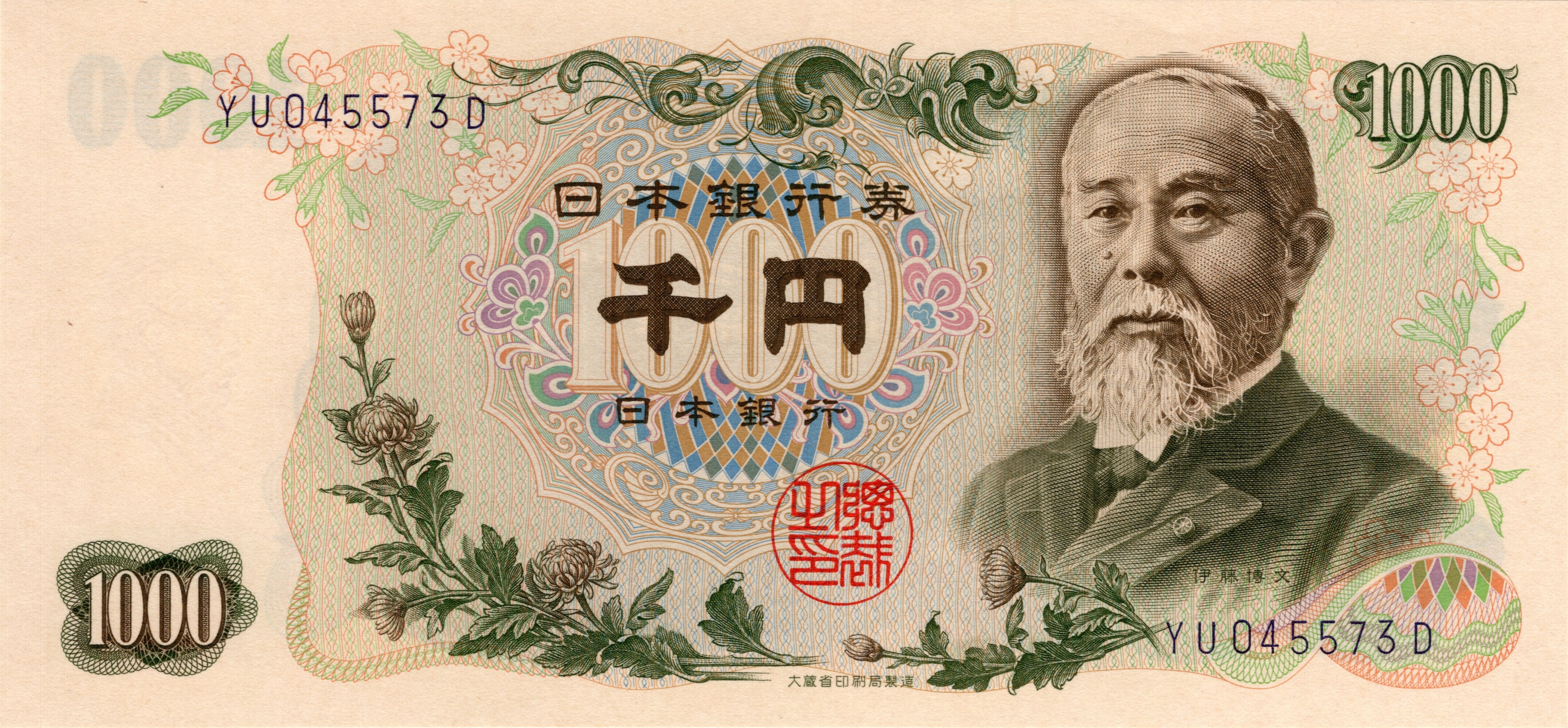 Series C 1000 Yen Bank of Japan note. Itō Hirobumi. First issued in 1963. Issue suspended in 1986. Legal tender. 164mm x 76mm.